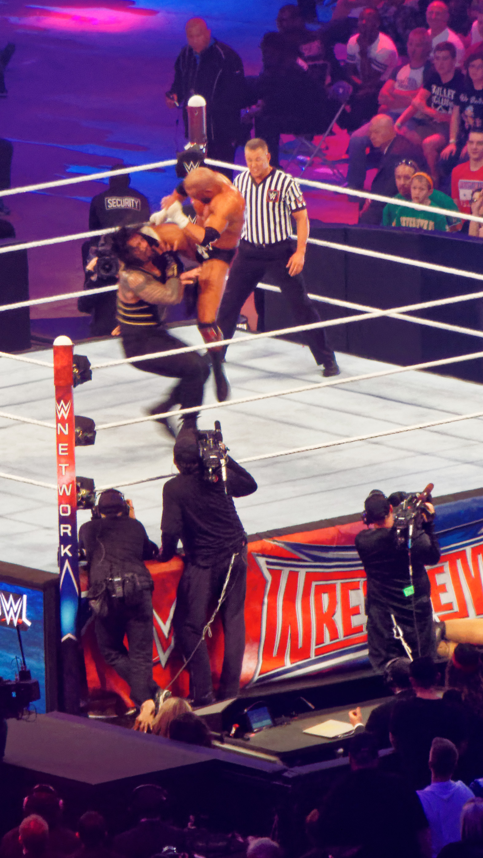 WrestleMania 32 was the thirty-second annual WrestleMania professional wrestling pay-per-view (PPV) event produced by WWE. It took place on April 3, 2016, at AT&T Stadium in Arlington, Texas. Twelve matches were contested on the card (with three matches occurring on the WrestleMania Kickoff pre-show - two airing live on the USA Network, which televised the second hour of the pre-show). Roman Reigns def. (pin) Triple H (c) (in 27:10) For : WWE World Heavyweight Championship (title change) Rating : ***1/4